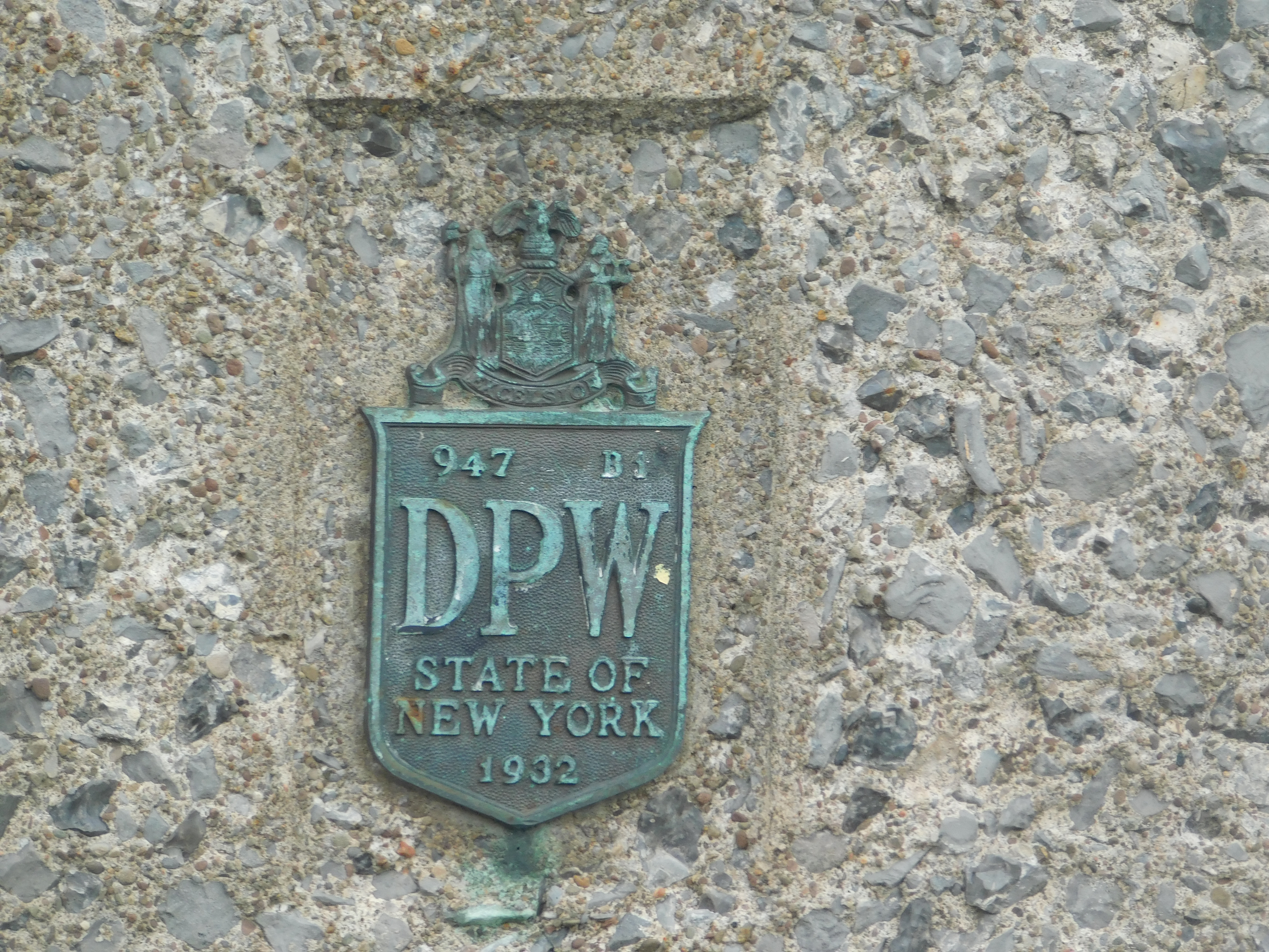 The former New York State Department of Public Works shield on South Newstead Road (ex-NY 93) in Newstead, New York.